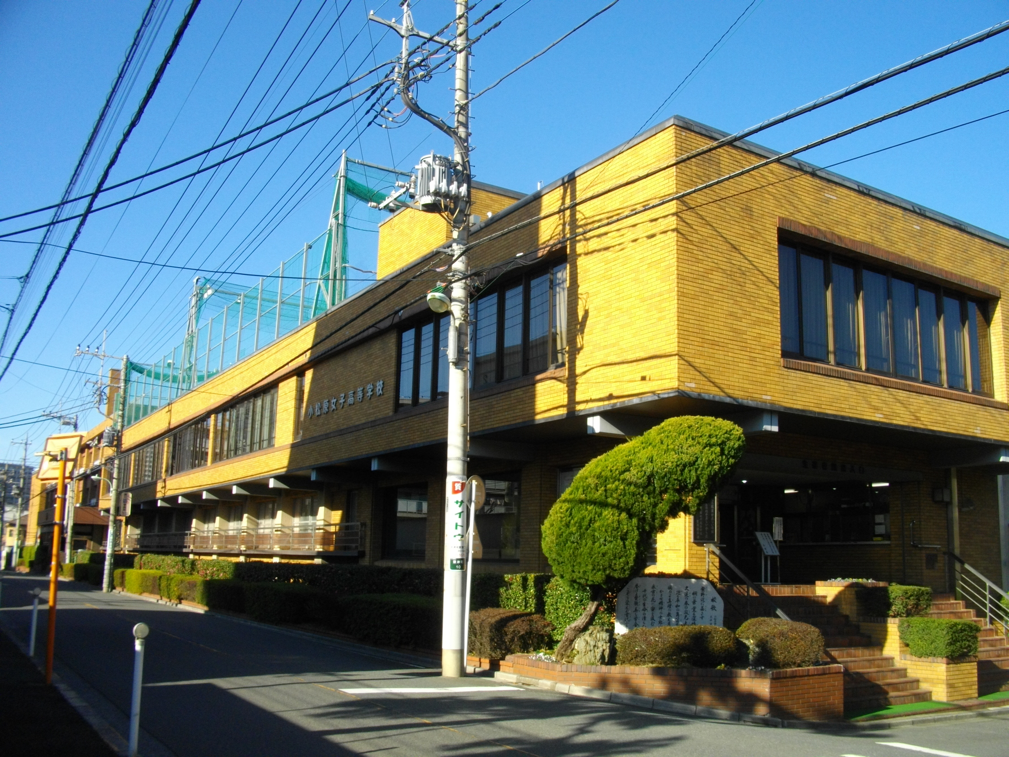 Komatsubara Girls' High School